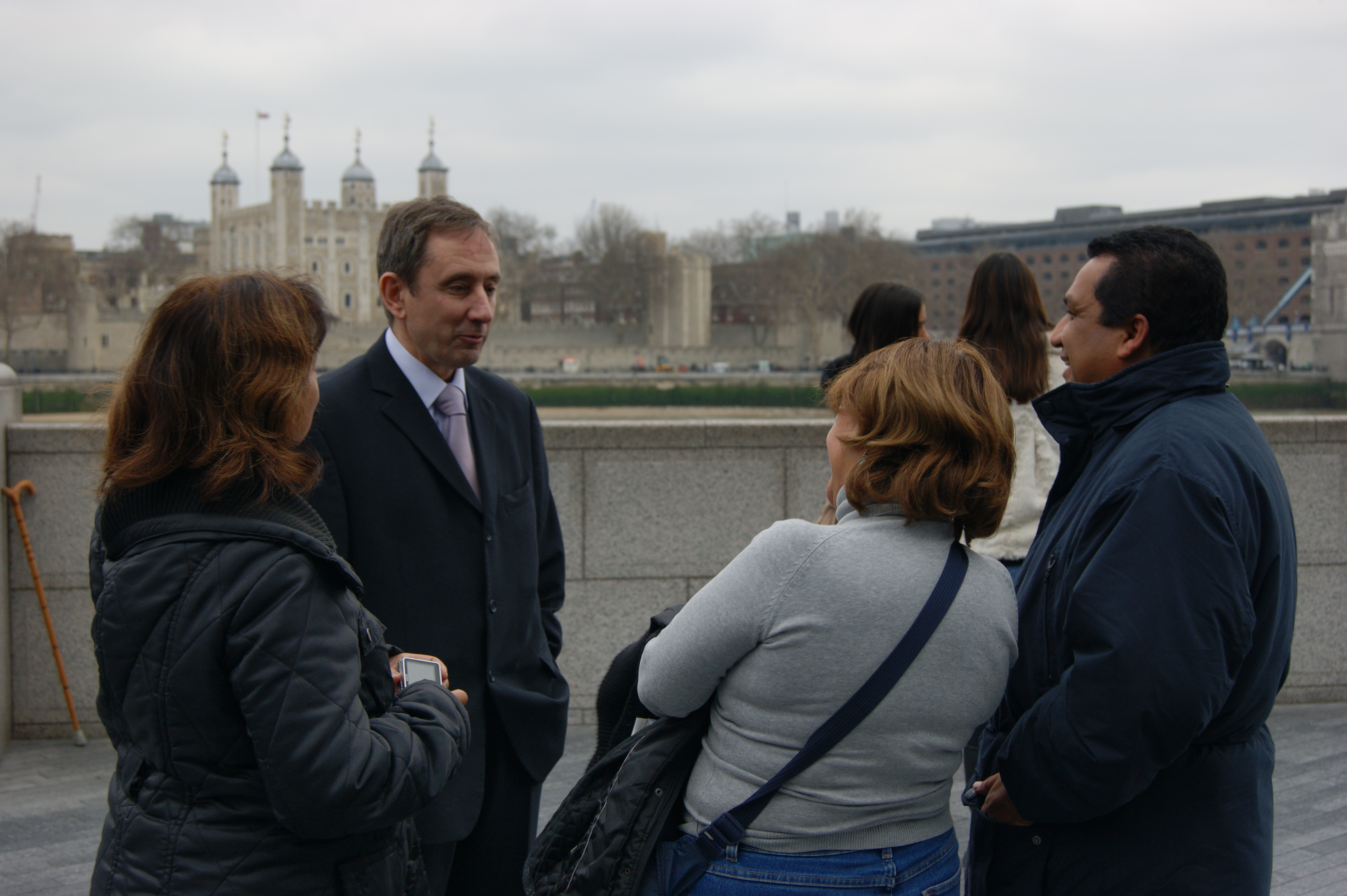 Carlos Cortiglia, the British National Party candidate for Mayor of London 2012 chats with voters.